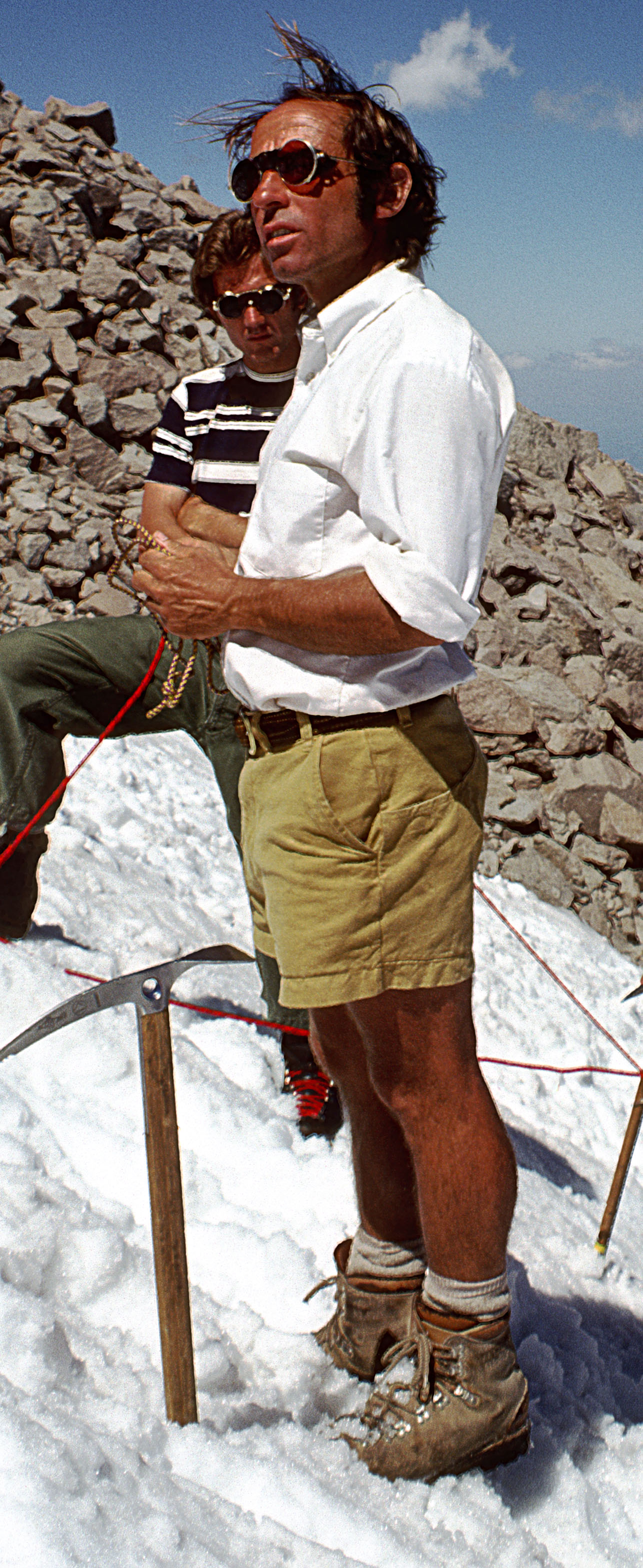 Ice climbing class on North side of Mt. Hood Oregon Summer 1975.